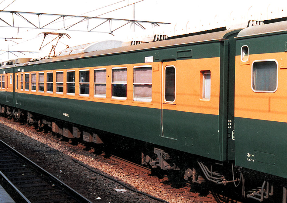 JNR Moha 166-12 electric car